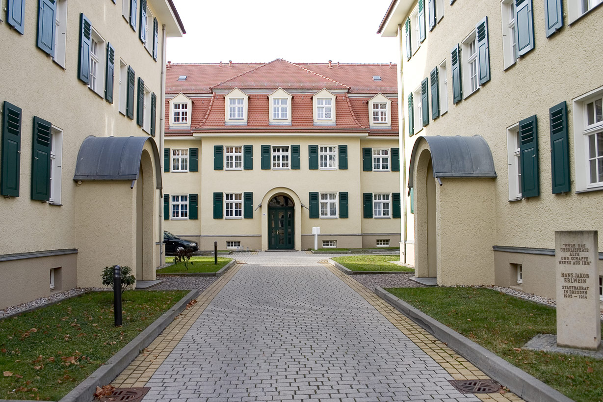 Buildings from architect Hans Erlwein in Dresden-Löbtau.